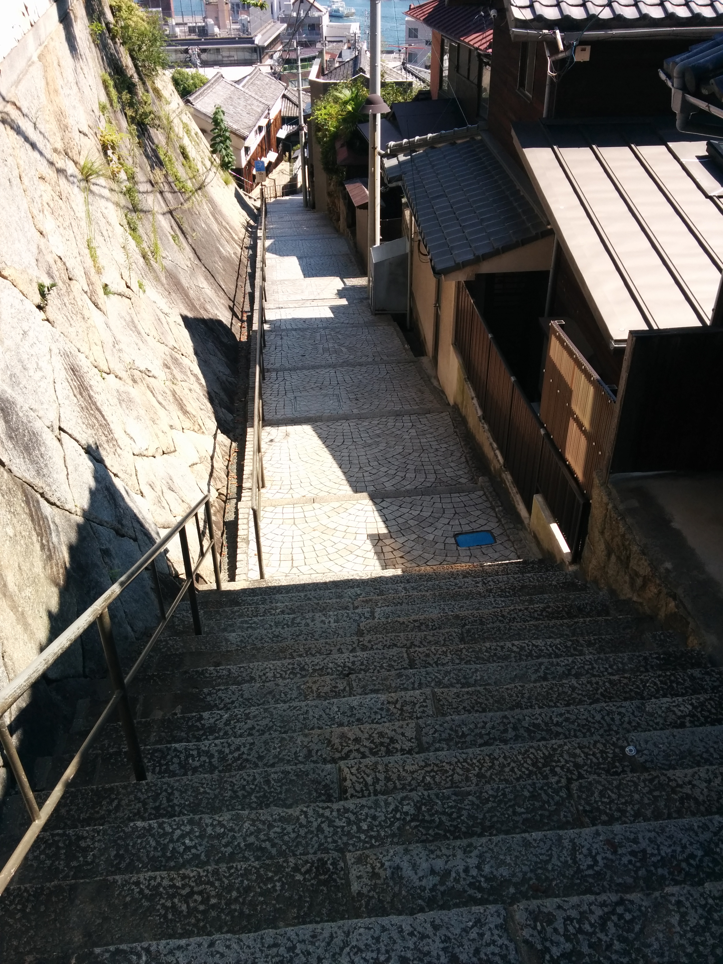 Onomichi, Hiroshima